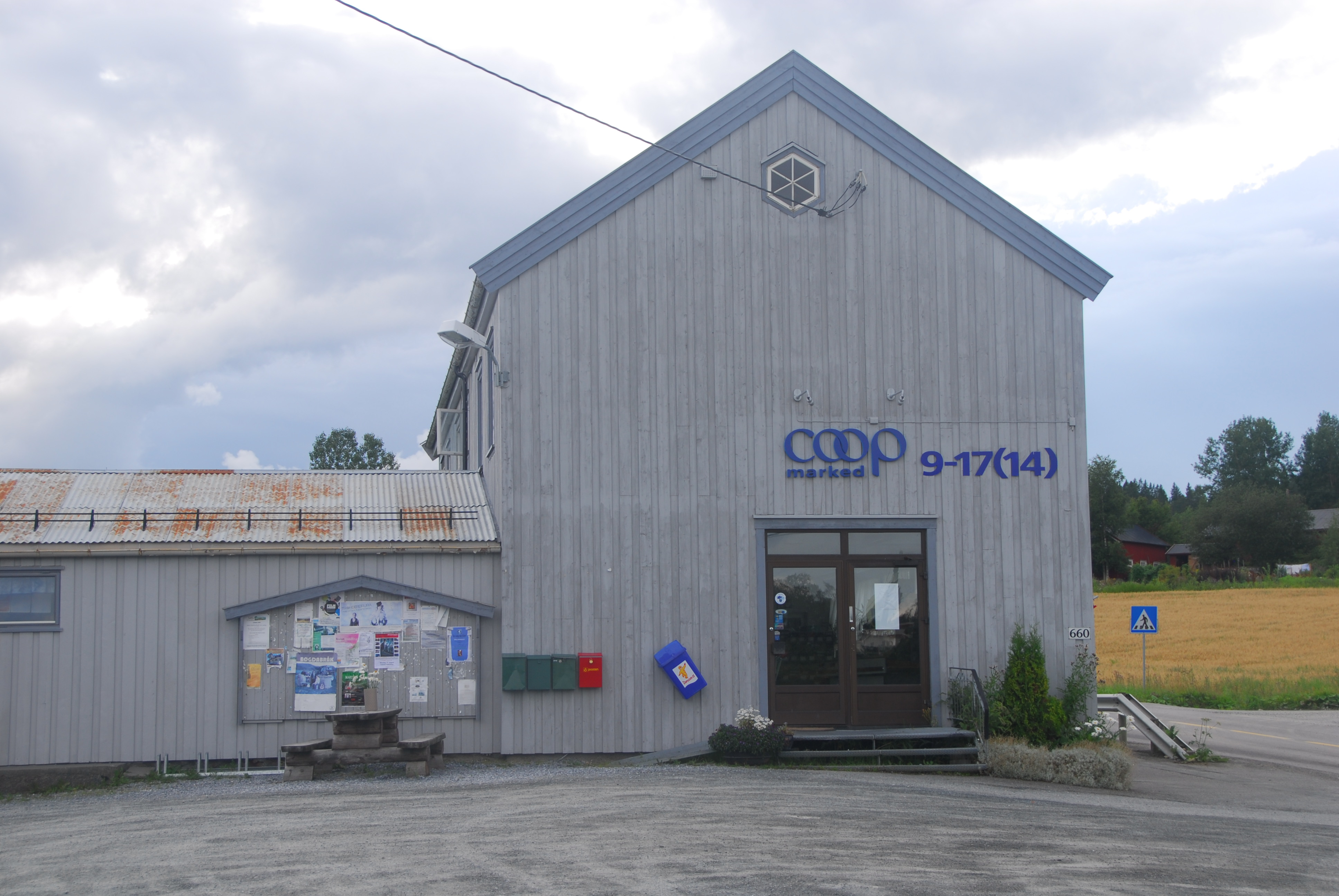 A Coop Market retail outlet in Utøy, Inderøy, Norway